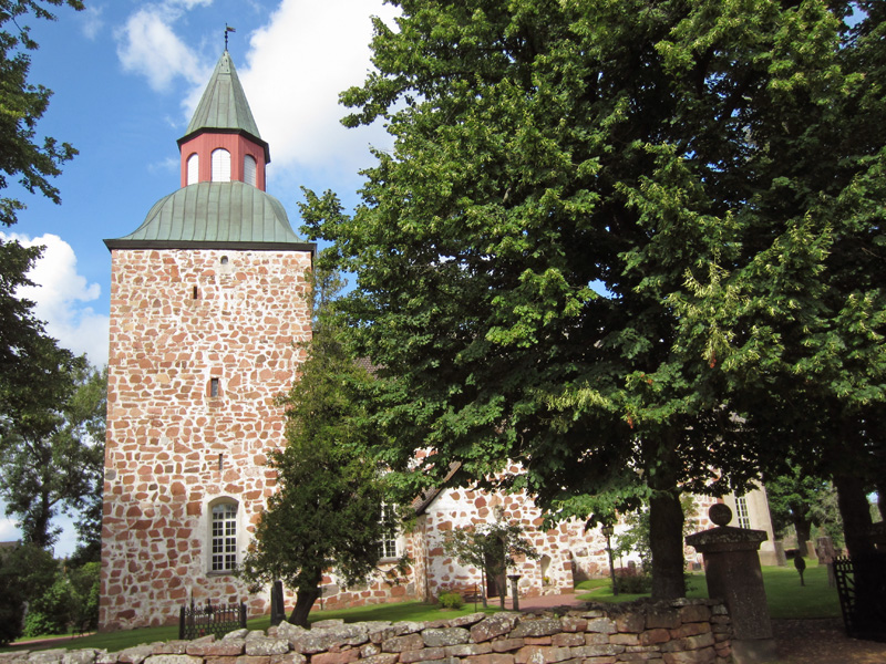 Saltvik Churk in Åland, Finland